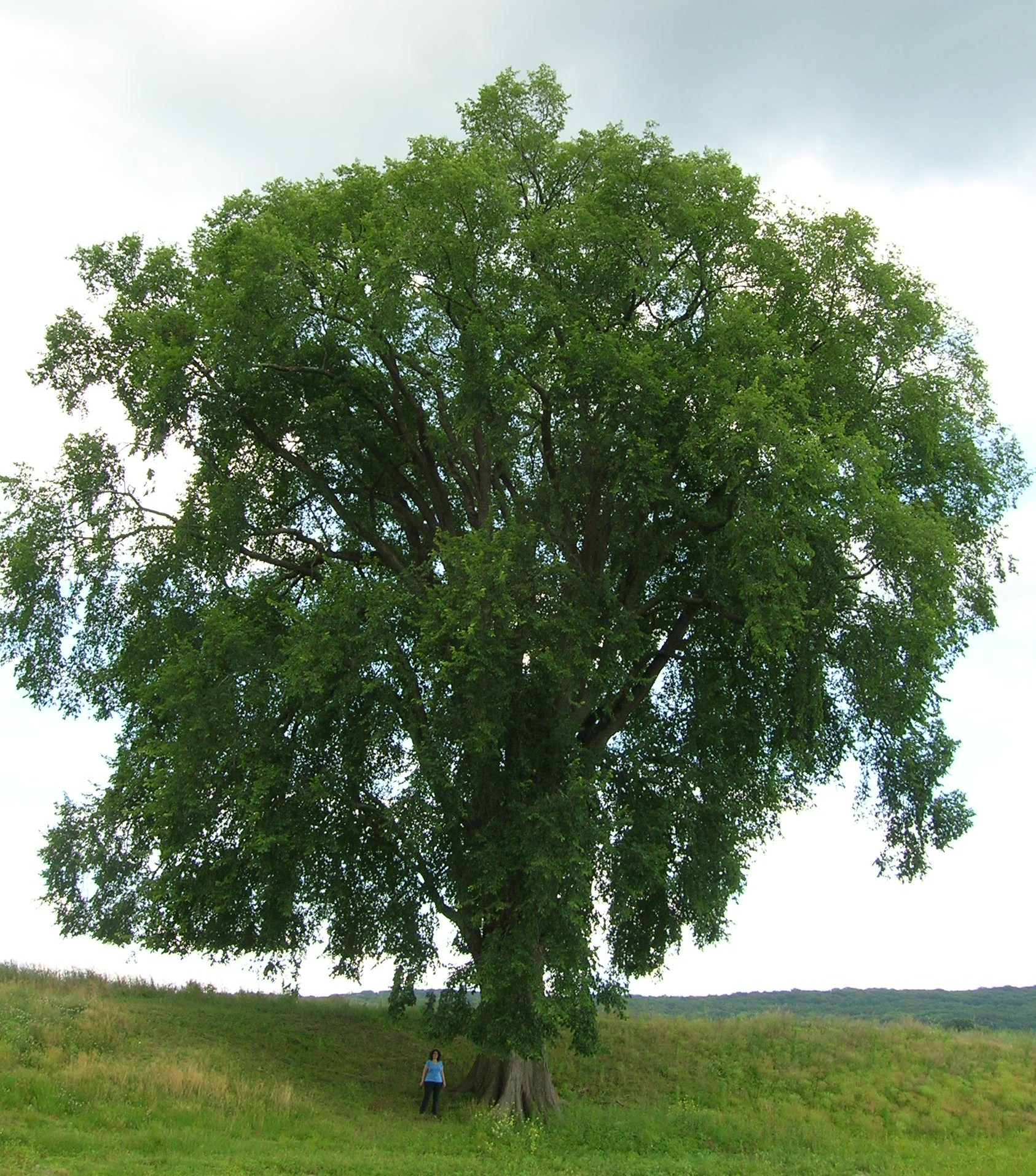 Photo of an American Elm tree located in New England, which was photographed in June 2012.